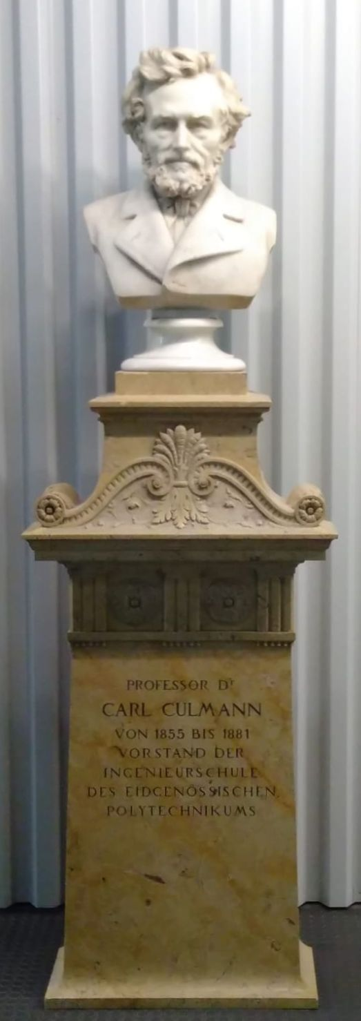 Memorial for Carl Culmann, at ETH Zürich.